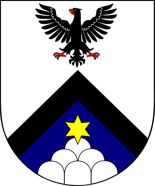 Coat of arms (shield only) of Diego Causero, apostolic Nuncio to Chad (1992 - 1999), apostolic Nuncio to Central African Republic (1993 - 1999), apostolic Nuncio to Republic of Congo (1993 - 1995), apostolic Nuncio to Syria (1999 - 2004), apostolic Nuncio to Czech Republic (2004 - 2011), apostolic Nuncio to Liechtenstein and Switzerland (2011 - ). Based on this: @